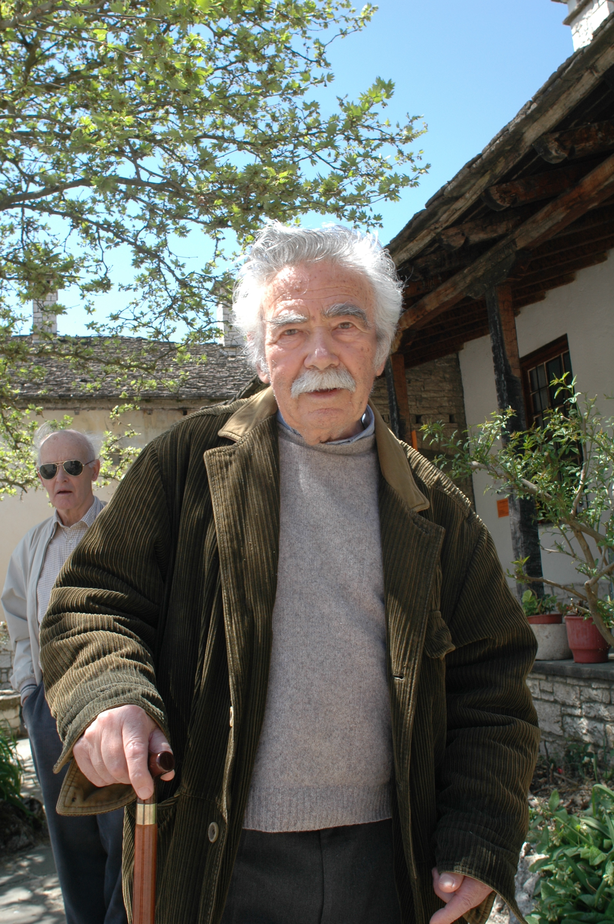 Pavlos Vrellis at the Vrellis museum that he founded.